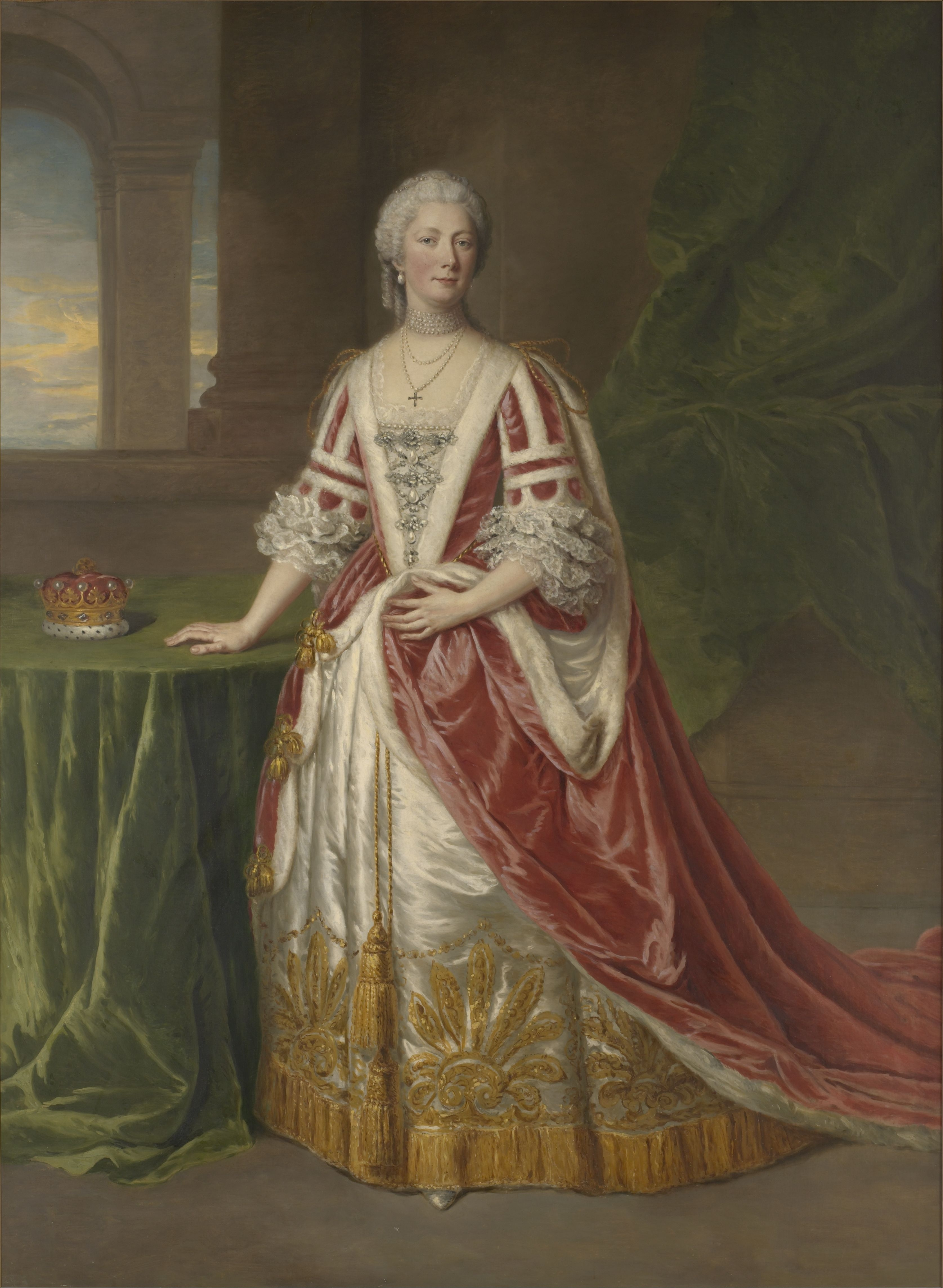 The Countess of Chatham in coronation robes, with her coronet on a table